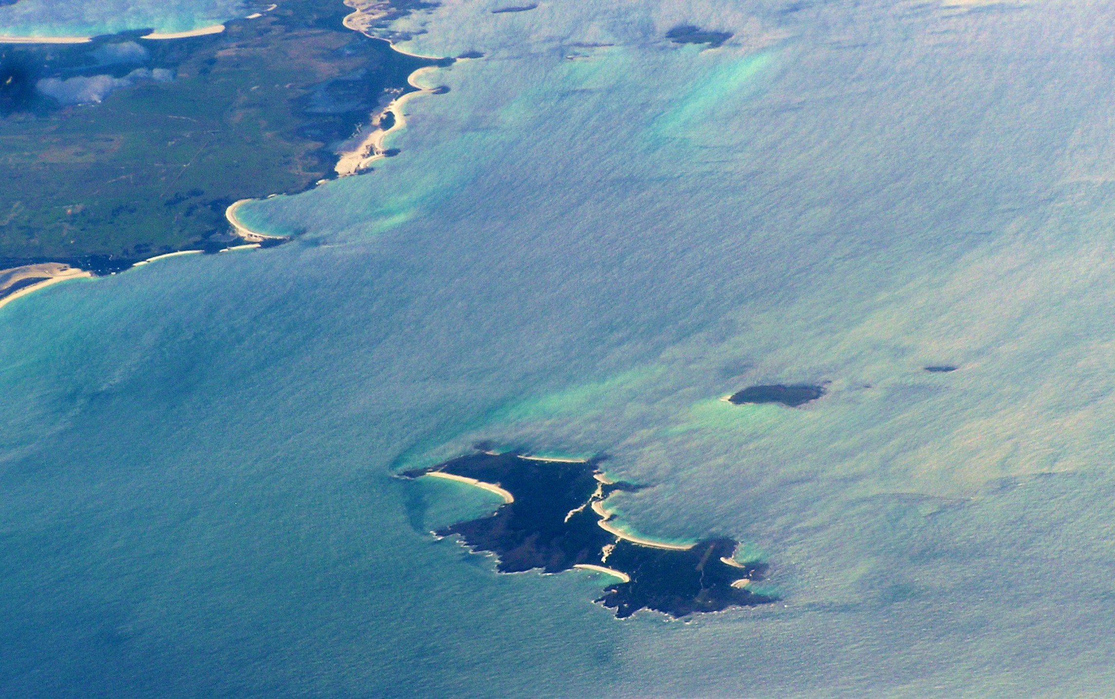 Swan Island (front) and Little Swan Island, Cygnet Island (right) near Tasmania Cape Portland (left) aerial photo. Island at top is Foster Islands, pointy cape is Lanoma Point, Lyme Regis is a locality on beach at far left.